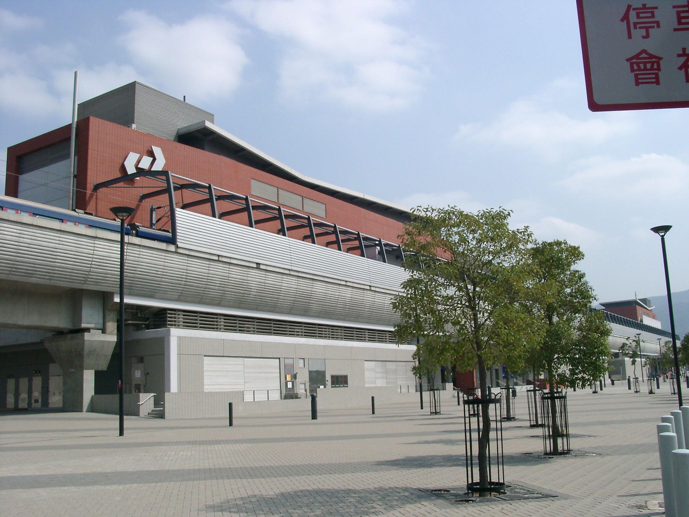 Station building of Kam Sheung Road Station, West Rail, Hong Kong